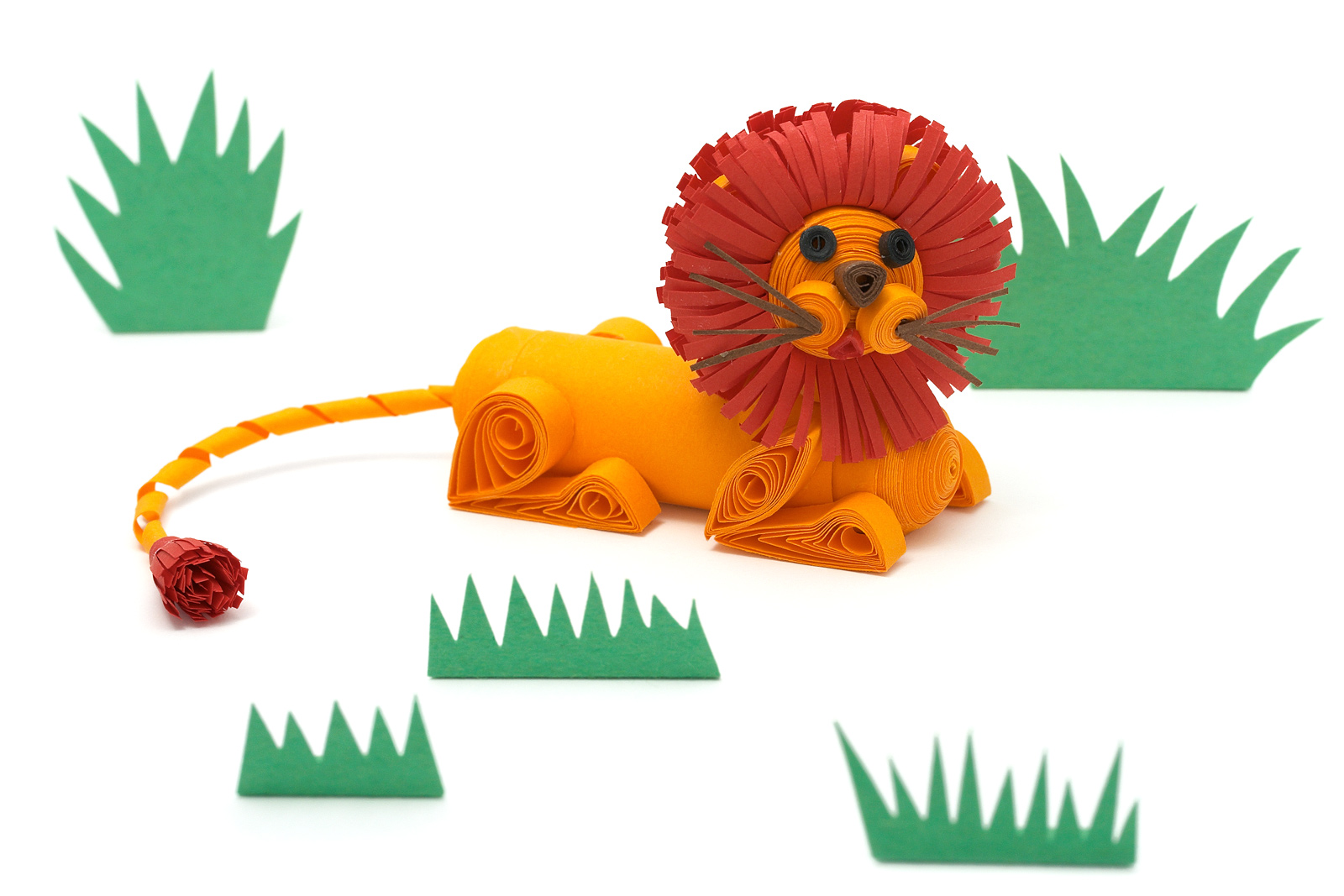 Lion — Sample Dimensional Quilling Item